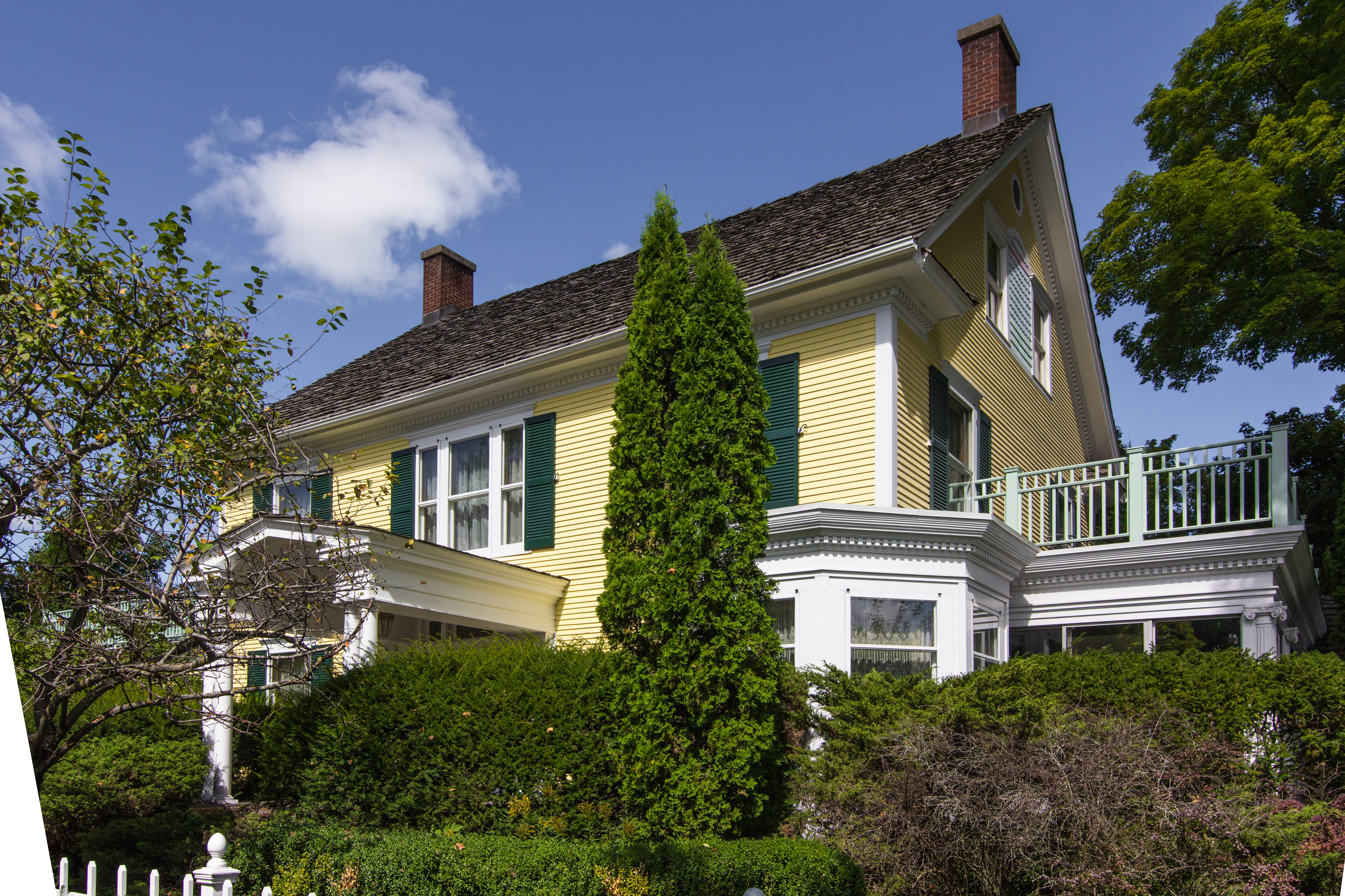 Edwin C. Morris House